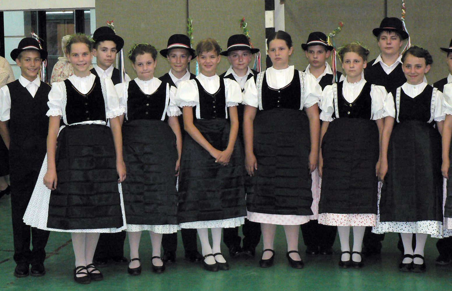 Néhányan az Edelsteinből (2007)